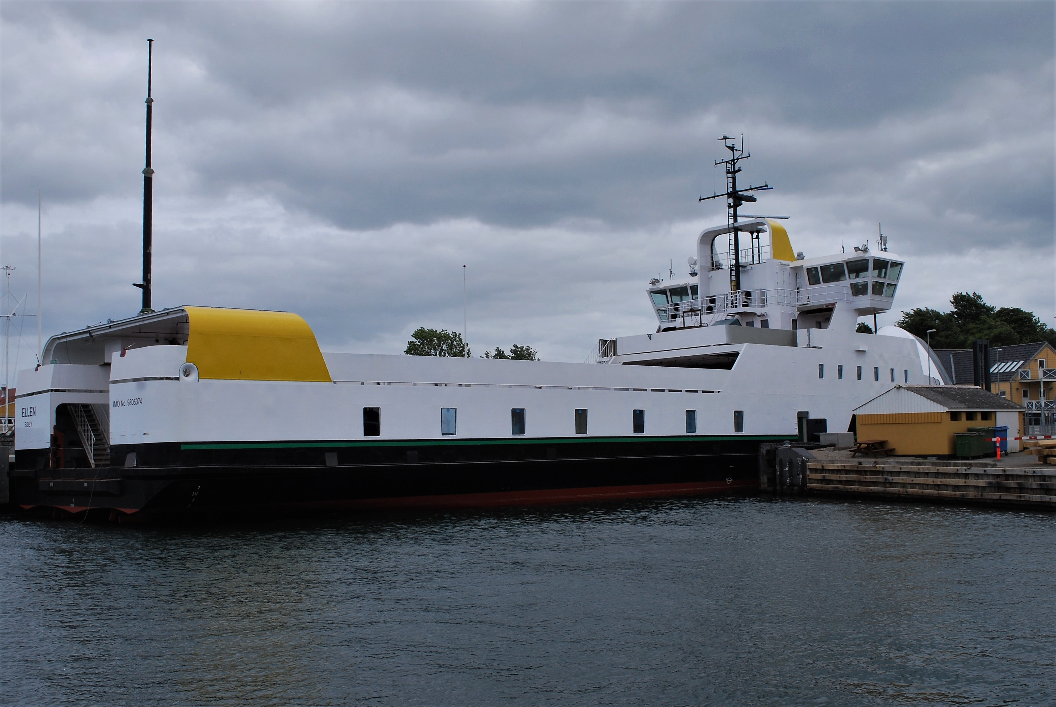 E-ferry Ellen, Søby, Ærø, Denmark